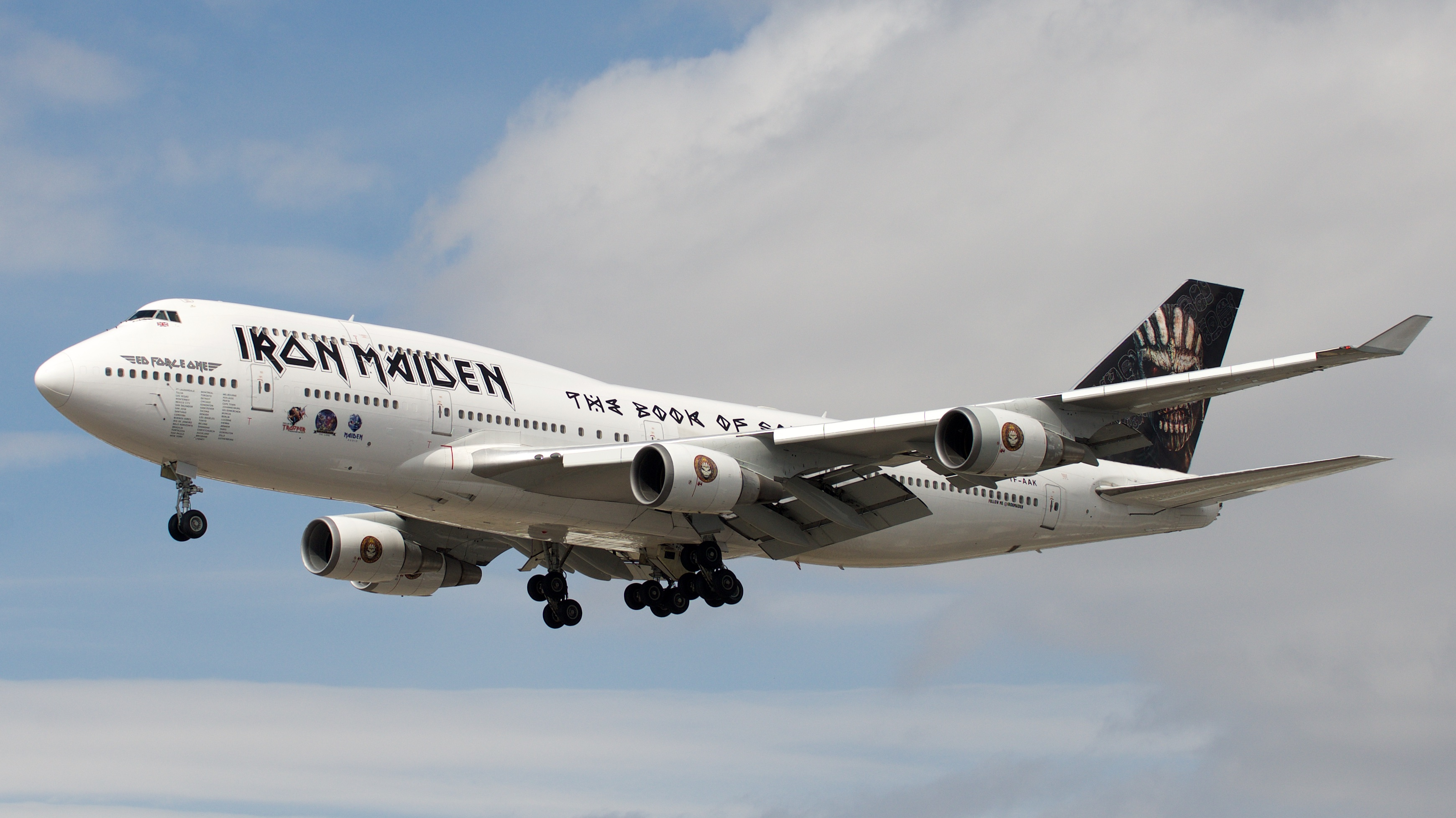 Ed Force One carrying @ironmaiden arriving at @torontopearson